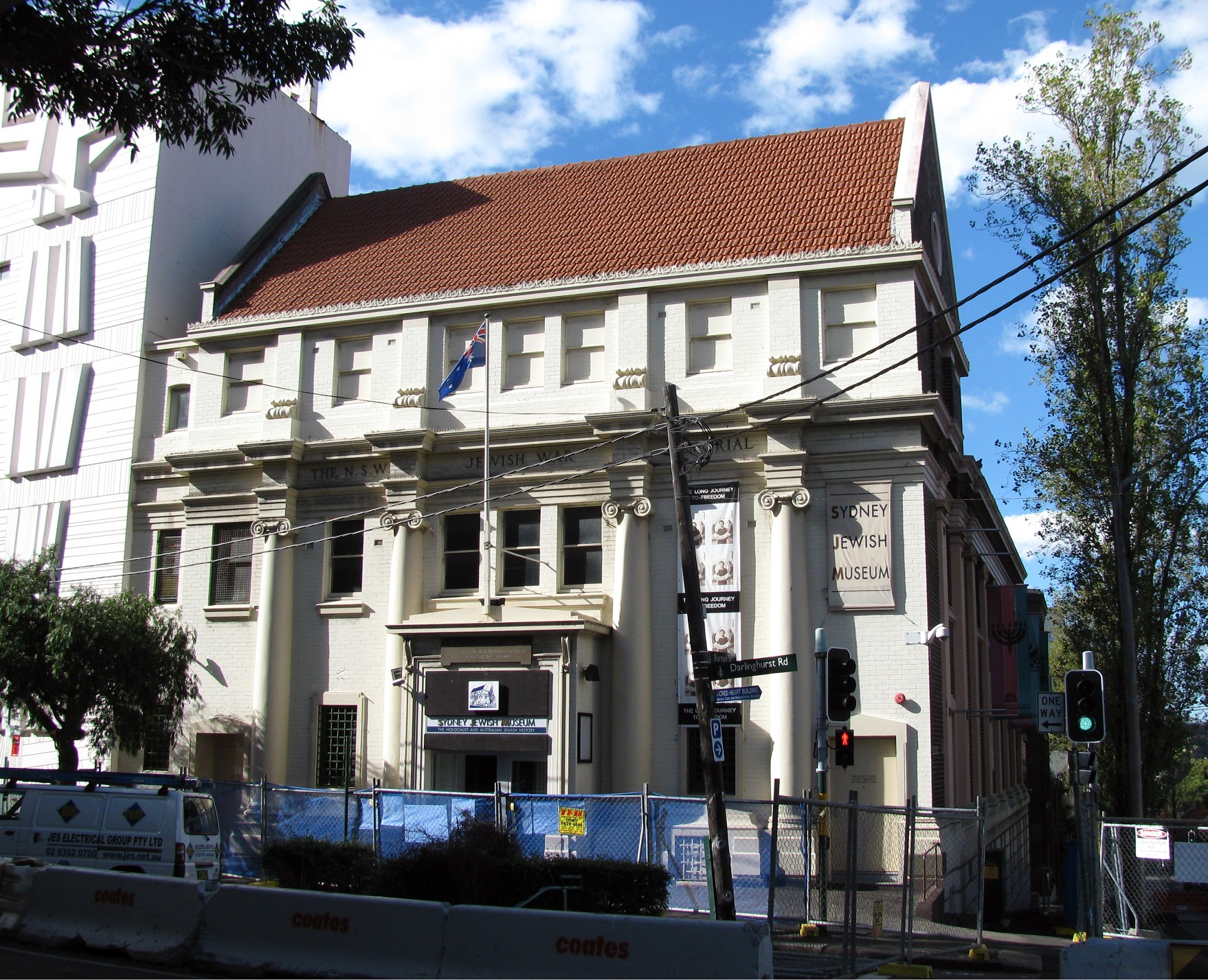 The Sydney Jewish Museum on corner of the Burton Street and the Darlinghurst Road in Darlinghurst, Sydney